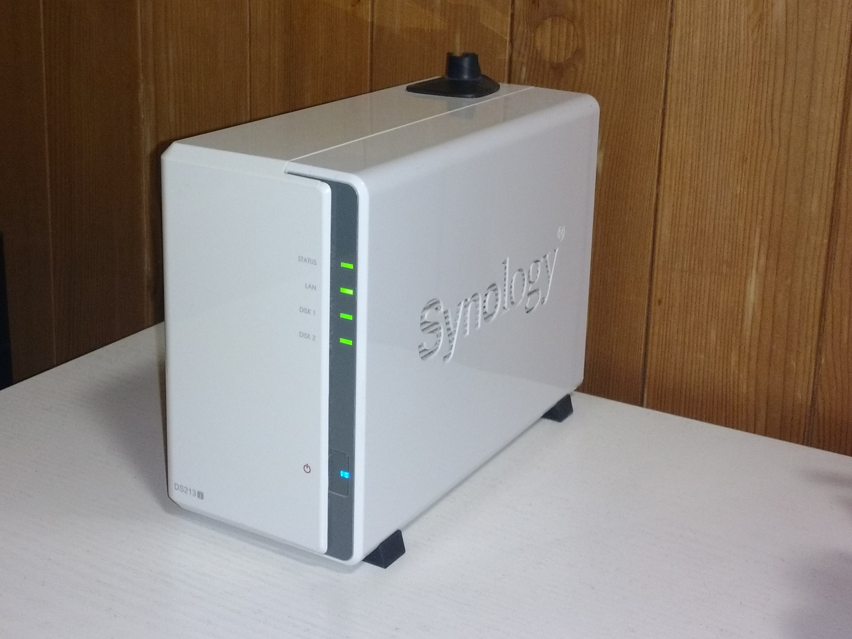 Picture of a Synology ds213j equipped with two hard drives.